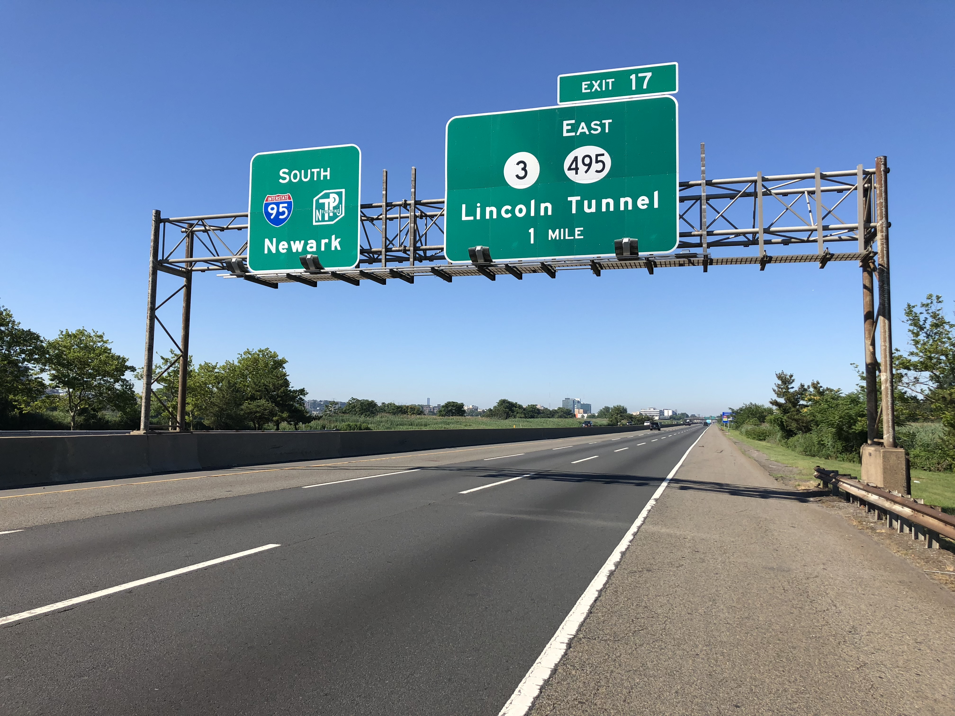 View south along Interstate 95 (New Jersey Turnpike Eastern Spur) between the exit for the New Jersey Turnpike Western Spur and Exit 17 in Secaucus, Hudson County, New Jersey